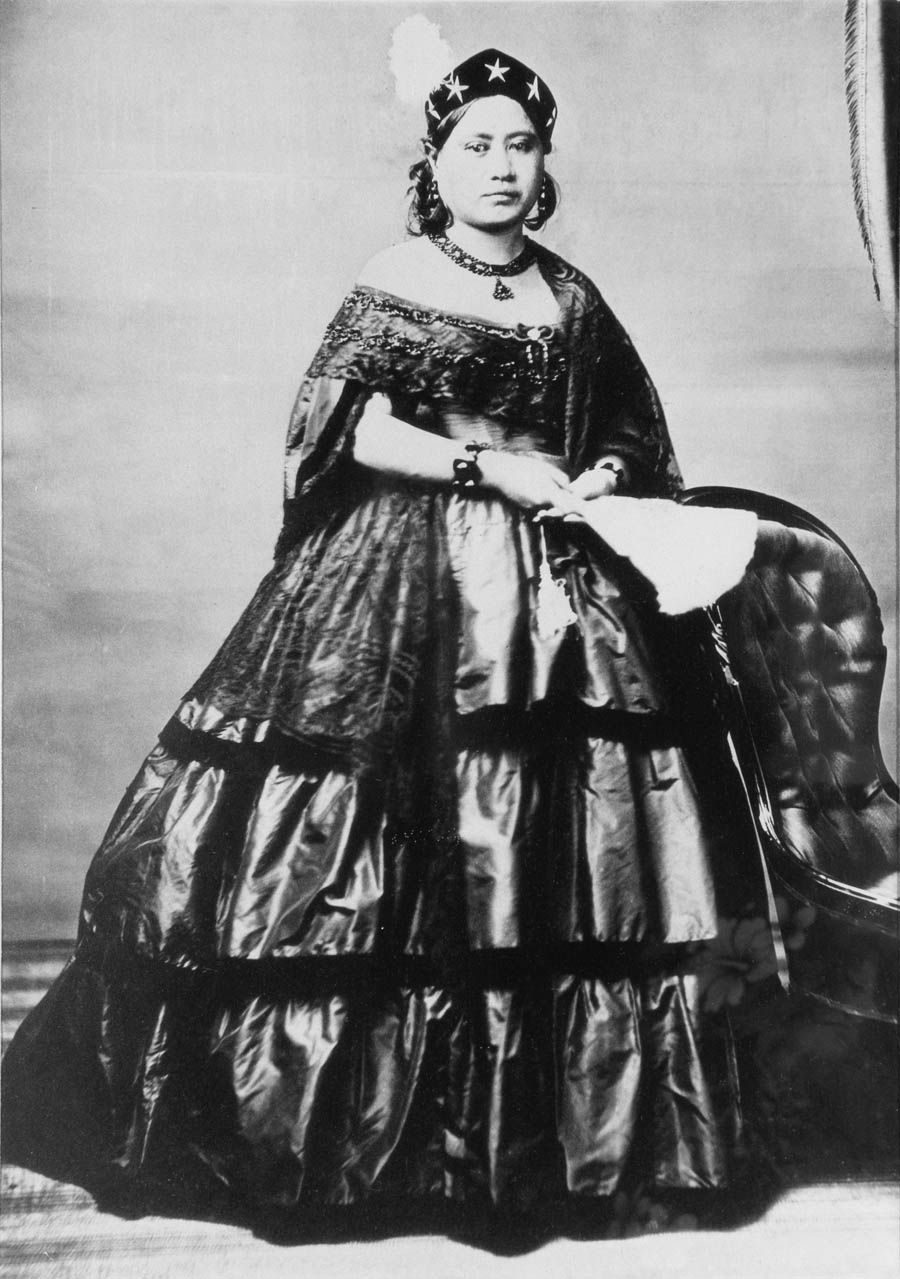 Victoria Kamāmalu Kaʻahumanu IV (1838–1866), was Kuhina Nui of Hawaii and its crown princess. Photograph by Charles L. Weed, Honolulu, Oahu, 1865 Albumen print 43.5 x 53.5 cm. Attained by the Bishop Museum through the gift of Victor S. K. Houston in 1942. Taken the year before her death, Victoria Kamamalu commands the viewer's attention. The boldness of the portrait is enhanced by its incredible size; however, it is Kamamalu's proud stature and her hat with its crown of stars that tell of her rank and social position.